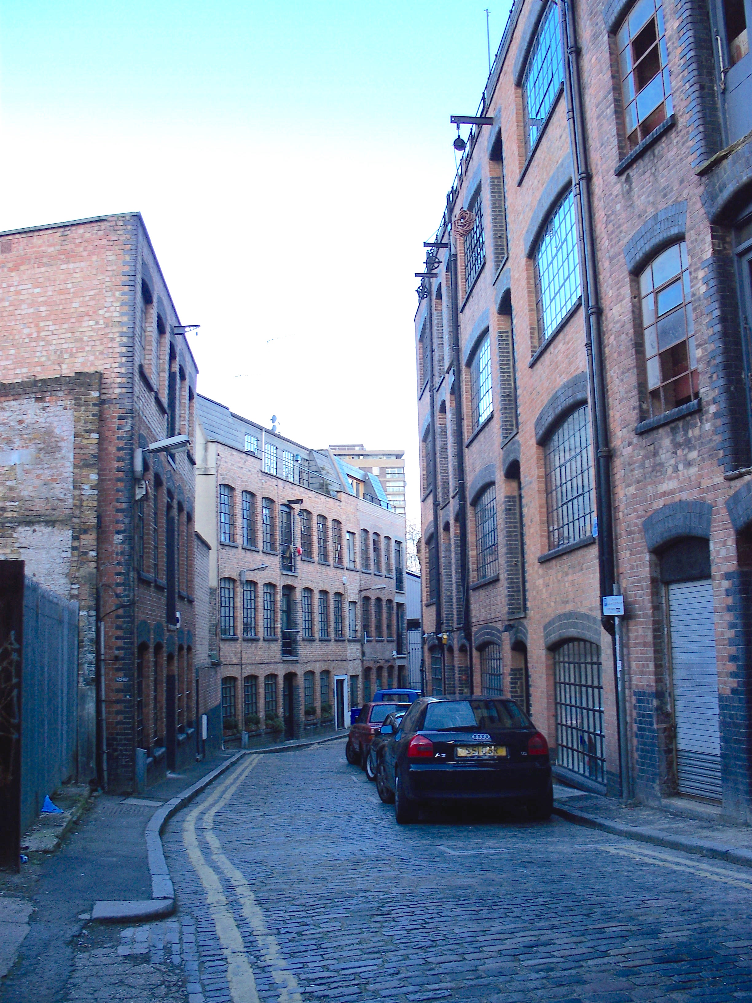 “Cottons Gardens”, Warehouses converted into loft apartments in Hoxton, London